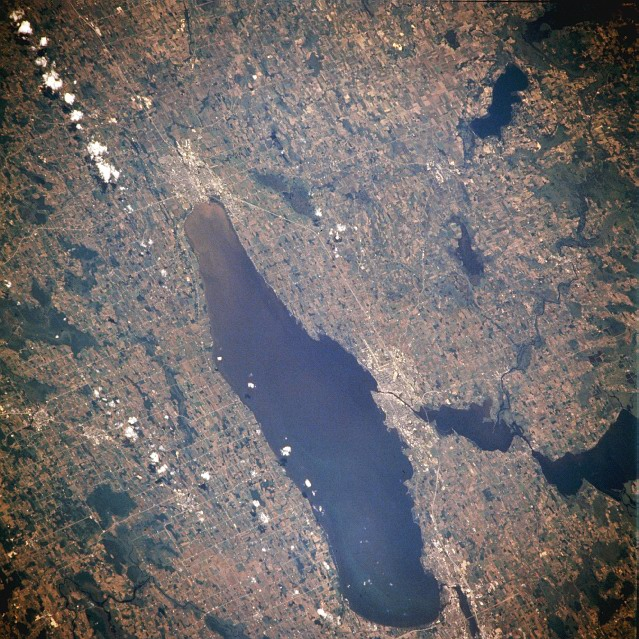 Lake Winnebago, Wisconsin, United States - July 1996 image description here